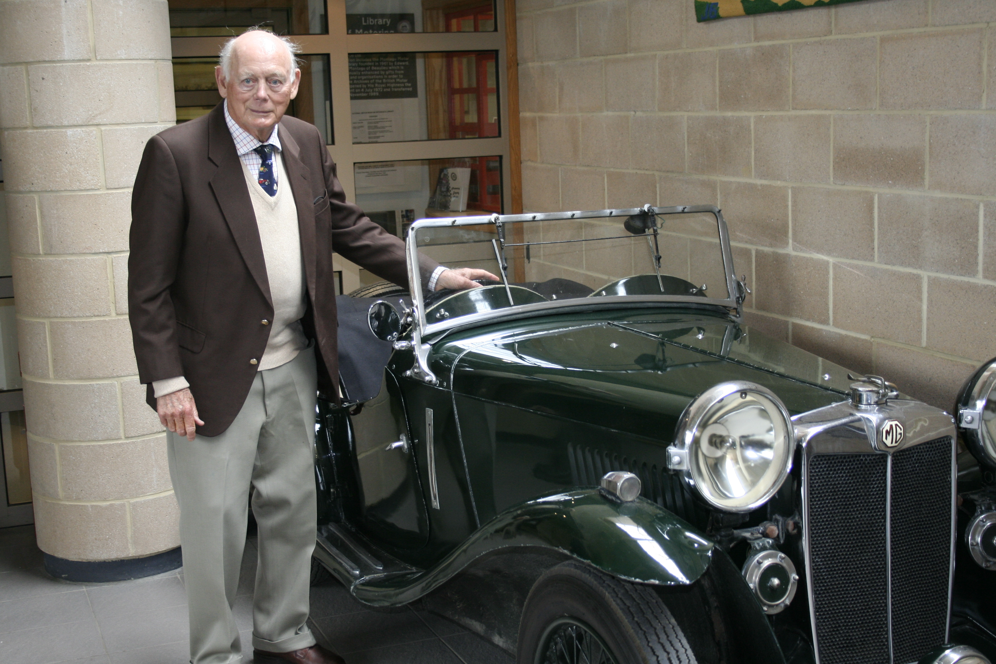 Edward Douglas-Scott-Montagu, 3rd Baron Montagu of Beaulieu